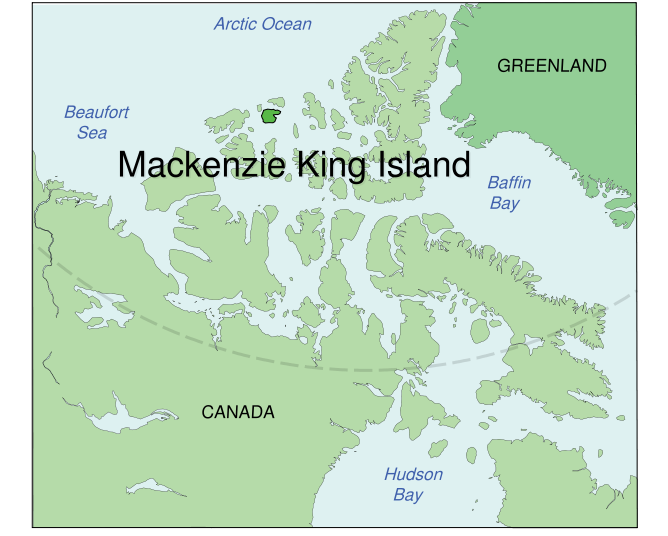 Created based on images from the CIA's World Fact Book.